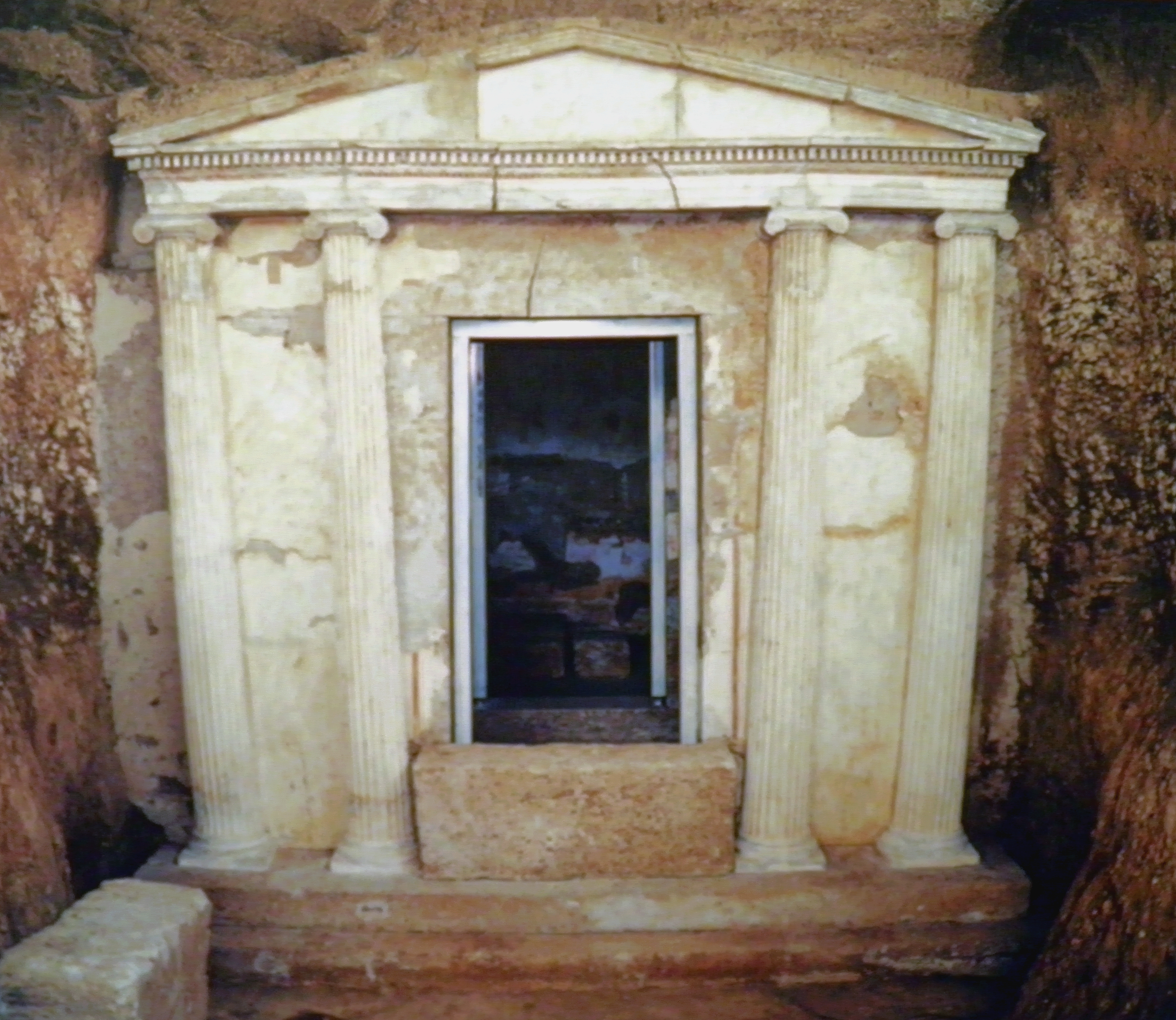 Photography of a Macedonian tomb with ionic facade, Archaeological Museum, Pella